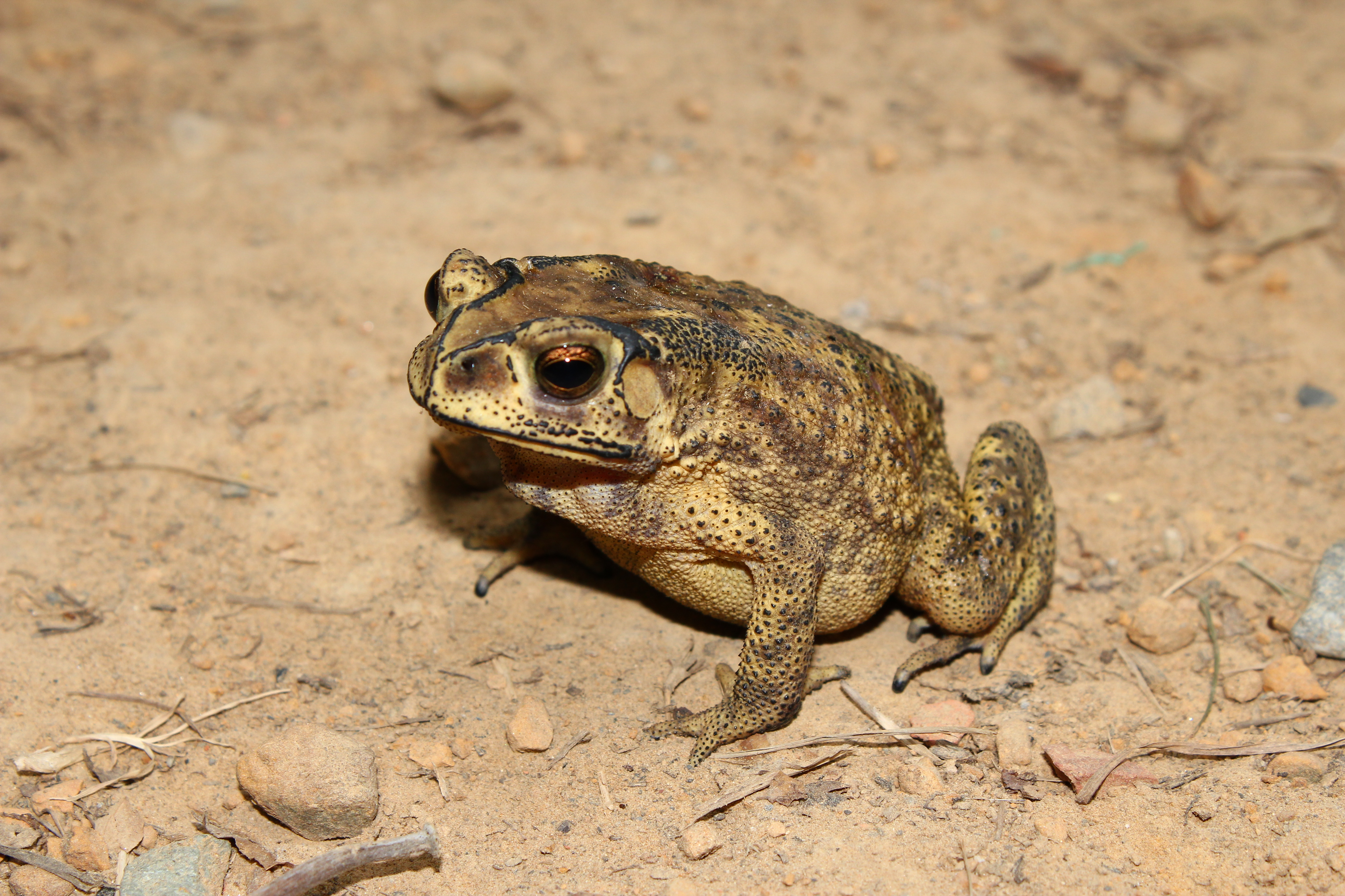 Duttaphrynus melanostictus